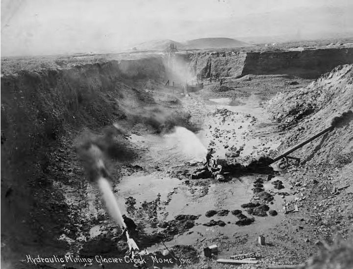 Mining with hydralic equipment near Nome, Alaska 1910